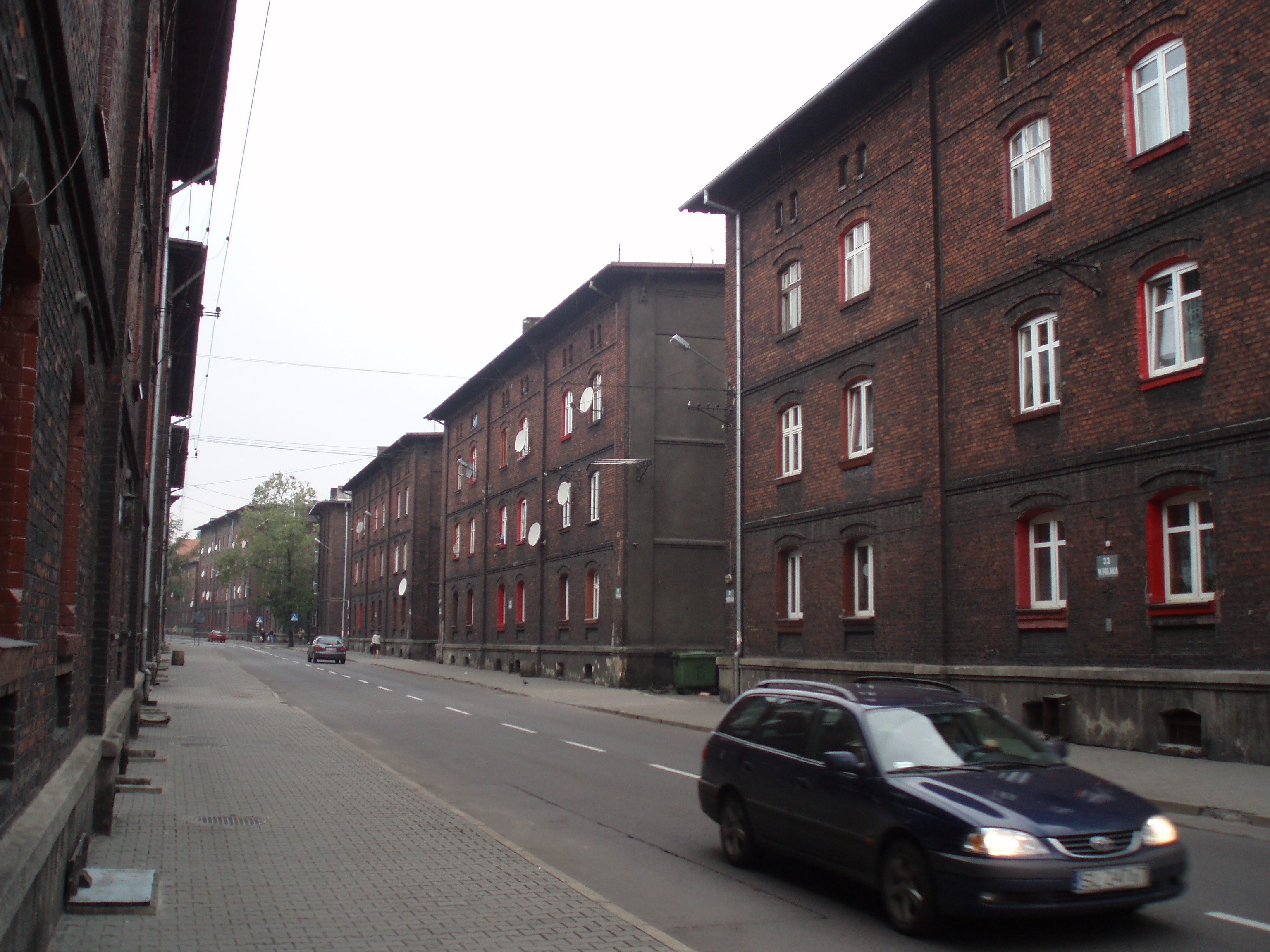 Familoki, workers houses from XIX century, Świętochłowice, Upper Silesia, Poland